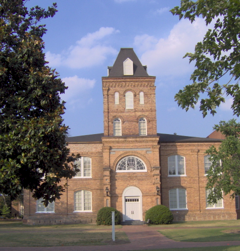 Photograph of Kivett Hall on the Campbell University campus made by Naytchrboy